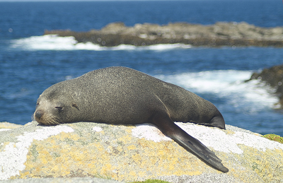 New Zealand Fur Seal, Arctocephalus forsteri, at Station Point, The Snares, New Zealand